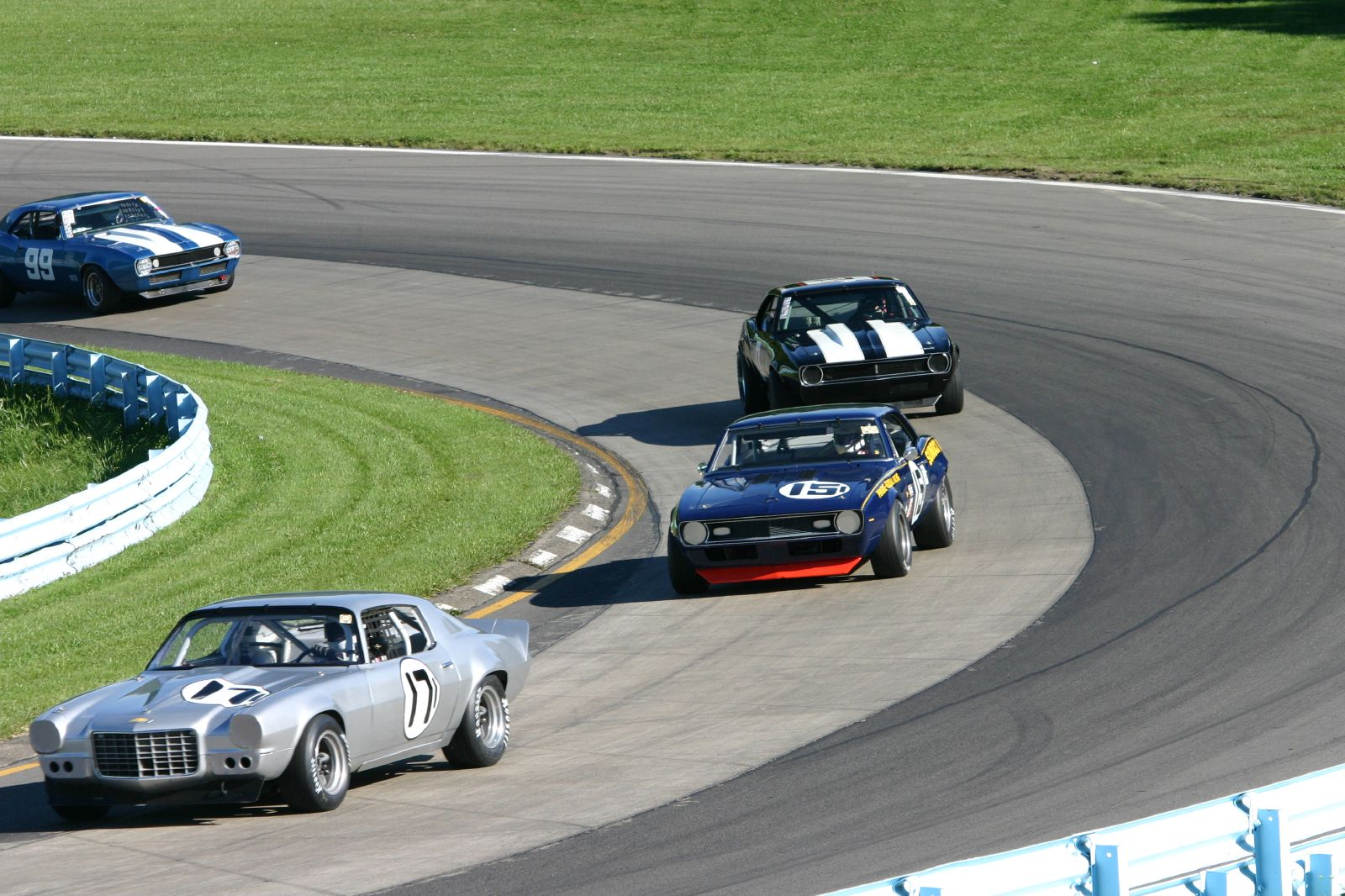 171 - 1970 Chevrolet Camaro (309cid) Sean Ryan Pike Road, AL 151 - 1967 Chevrolet Camaro Z28 (309cid) (Going by the oblong front direction indicators, the car appears to have been upgraded to 1968 specifications.) Pat Ryan Pike Road, AL 0 - 1967 Chevrolet Camaro Z28 (302cid) Jim Bradley Gaston, IN 99 - 1967 Chevrolet Camaro (310cid) Ed Jensen Des Moines, IA